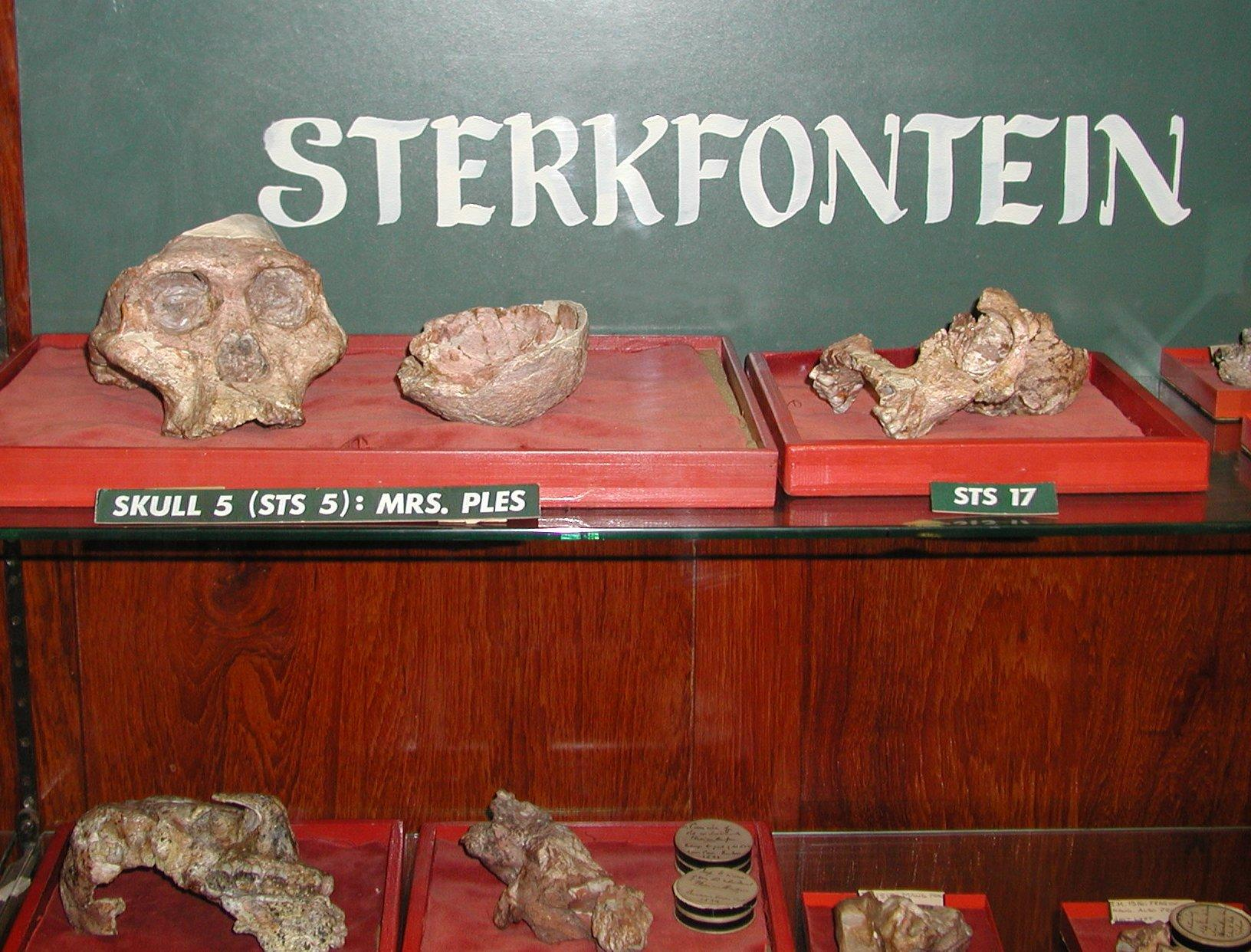 Original description: In a locked vault (the "Broom Room") in the basement of the Transvaal Museum in Pretoria is the skull of "Mrs. Ples", the first adult specimen of Australopithecus africanus discovered. It was found on April 18, 1947 by Dr. Robert Broom at the Sterkfontein Caves near Johannesburg. The name "Mrs. Ples" comes from the original name given to the species, Plesianthropus--almost human. The skull is approximately 2.5 million years old. Australopithecus africanus walked upright and had a brain approximately the size of a modern chimpanzee's. This skull remains the most complete known cranium of the species. The public exhibit in the museum is a cast replica of the fossil shown here.